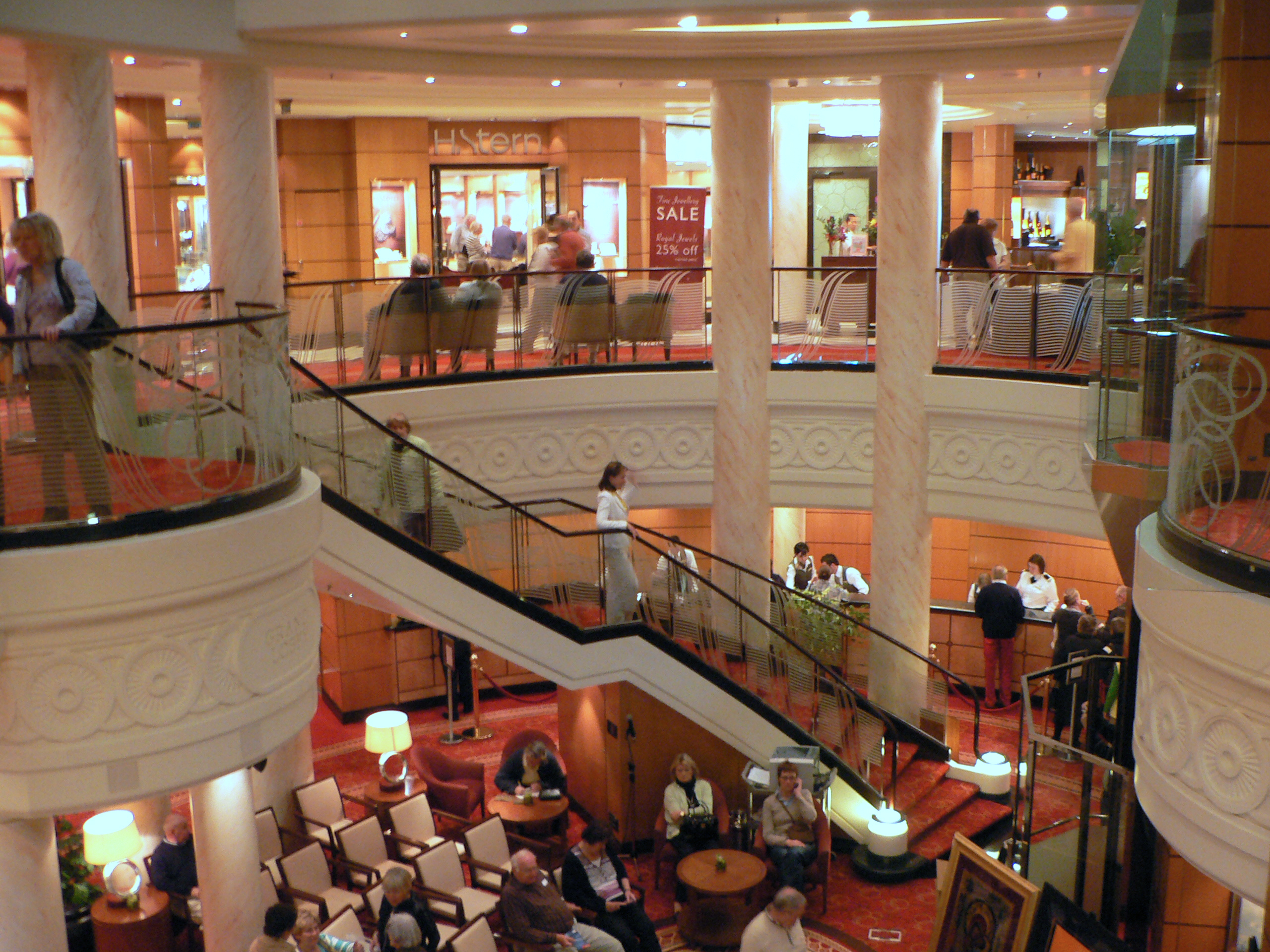 Looking down into Queen Mary 2's Grand Lobby